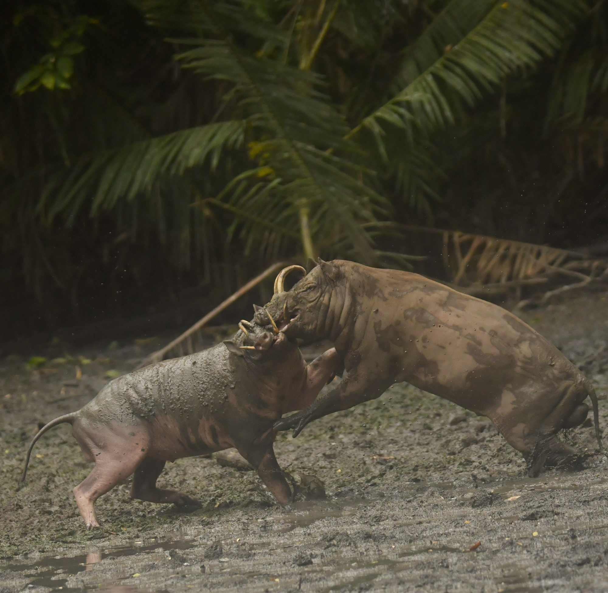 Babirusa is a type of wild pig that lives in tropical rainforests in Sulawesi, fighting is one of their ways to attract the attention of females